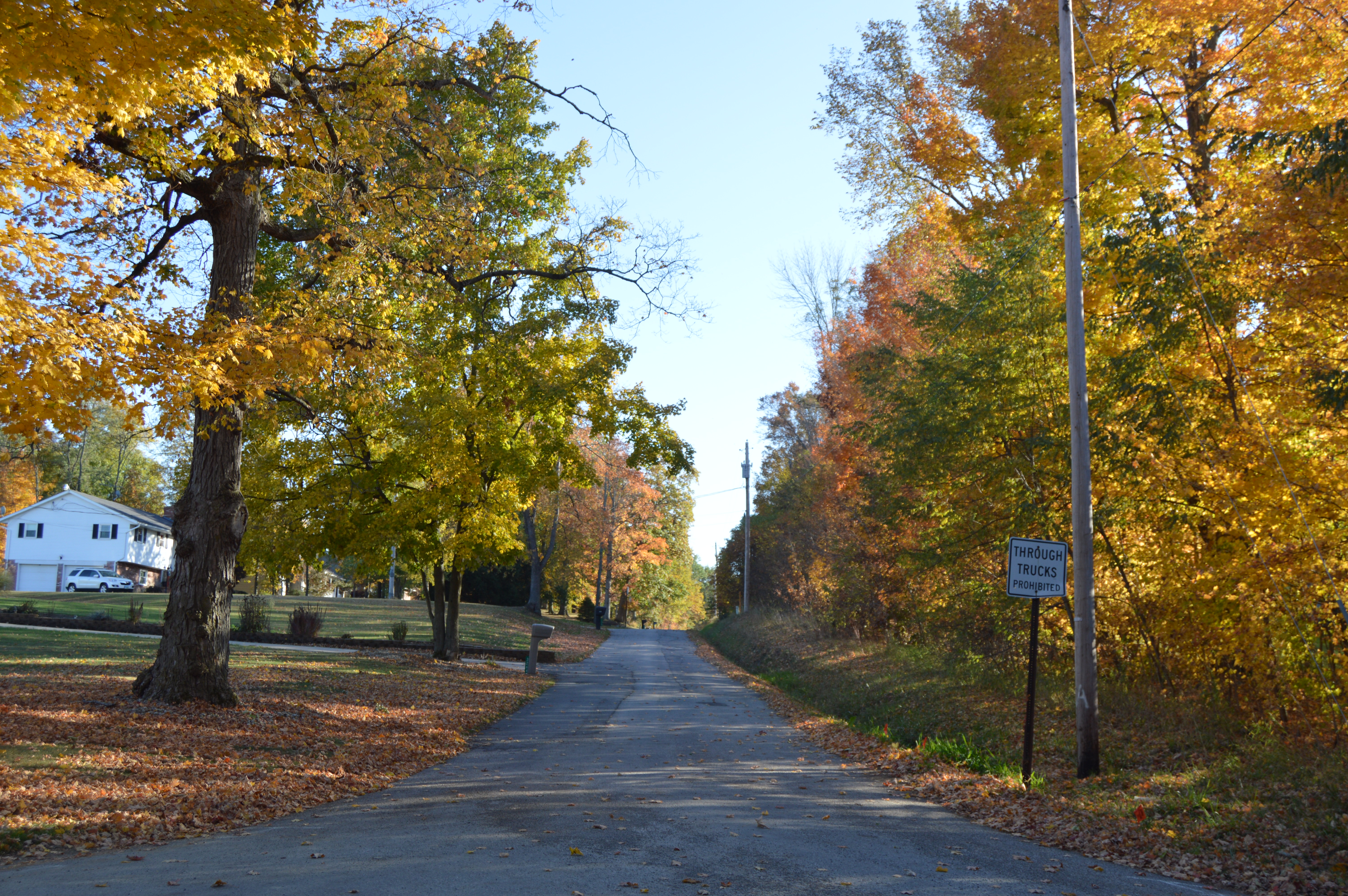 Looking south on Frank Road from the Five Points East Road intersection in Franklin Township, Richland County, Ohio, United States.